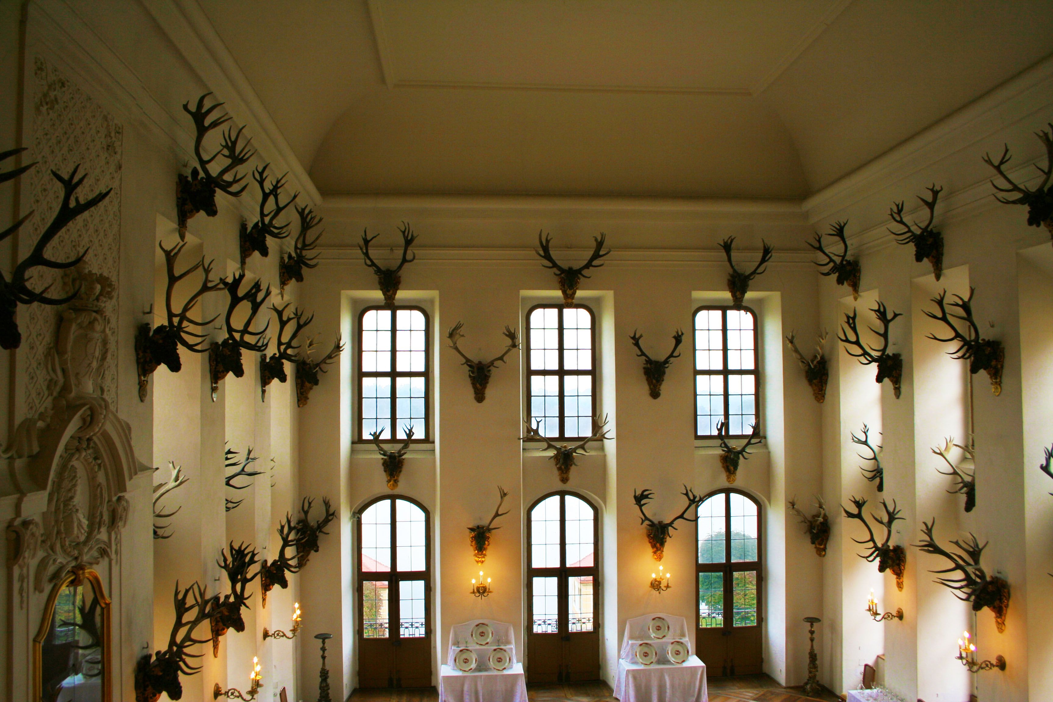 Collection of antlers from deer inside Schloss Moritzburg. (SEP2008)